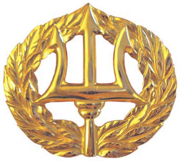 US Navy Command Ashore Insignia